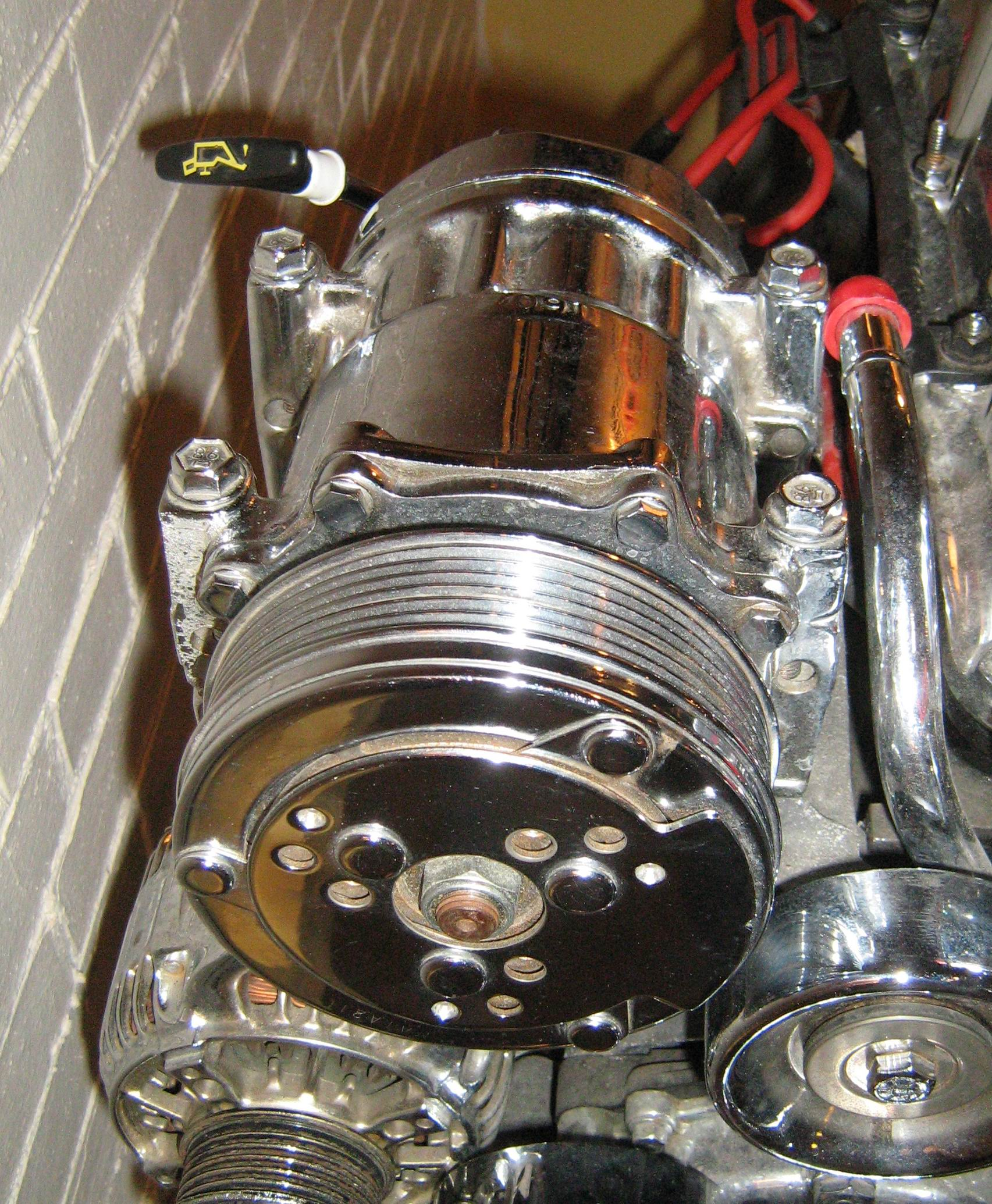 Jeep 2.5 liter 4-cylinder engine, chromed - close up of the air conditioning compressor from the front. This engine was developed by American Motors Corporation (AMC) and continued to be manufactured by Chrysler. All were built in Kenosha, Wisconsin.